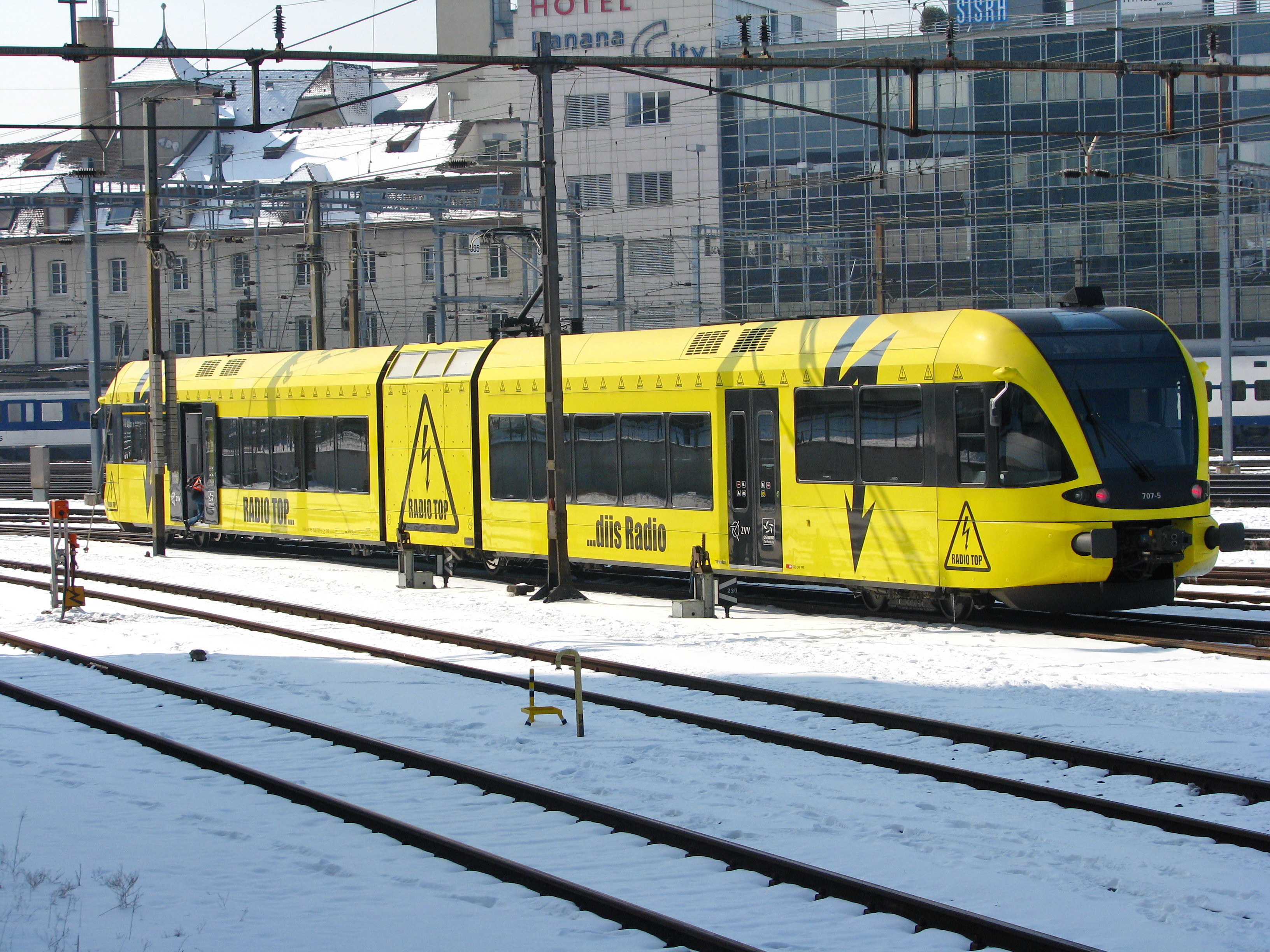 Advertisement for "Radio TOP" on a Stadler FLIRT train composition in Winterthur Hauptbahnhof (Switzerland)